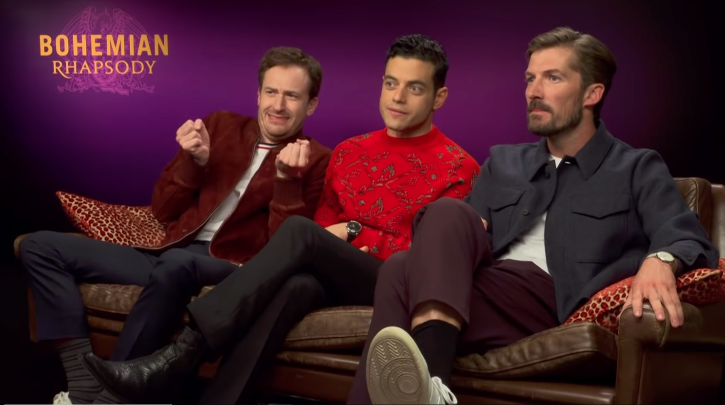 The stars of Queen biopic BOHEMIAN RHAPSODY Rami Malek, Joseph Mazzello, Gwilym Lee, and Lucy Boynton play a REGAL and FABULOUS game of Who Said It: QUEEN or THE QUEEN! Can they work out who said each quote? Plus, the cast give us all the deets on the incredible extended, 20 minutes long LIVE AID scene you WON’T see in cinemas. Subscribe to MTV for more great videos and exclusives!